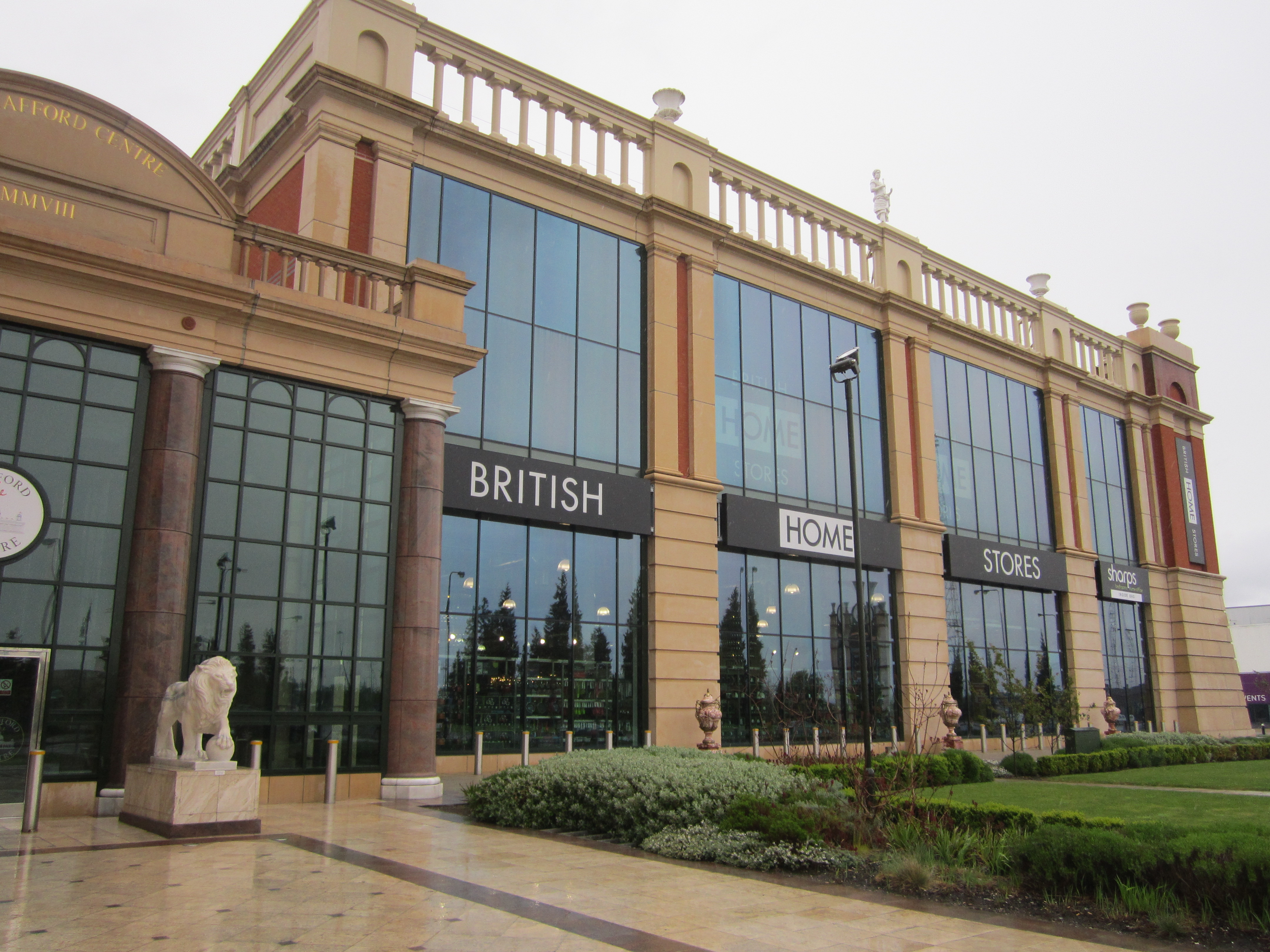 Photo taken at the Barton Square extension to the Trafford Centre, Greater Manchester, England.